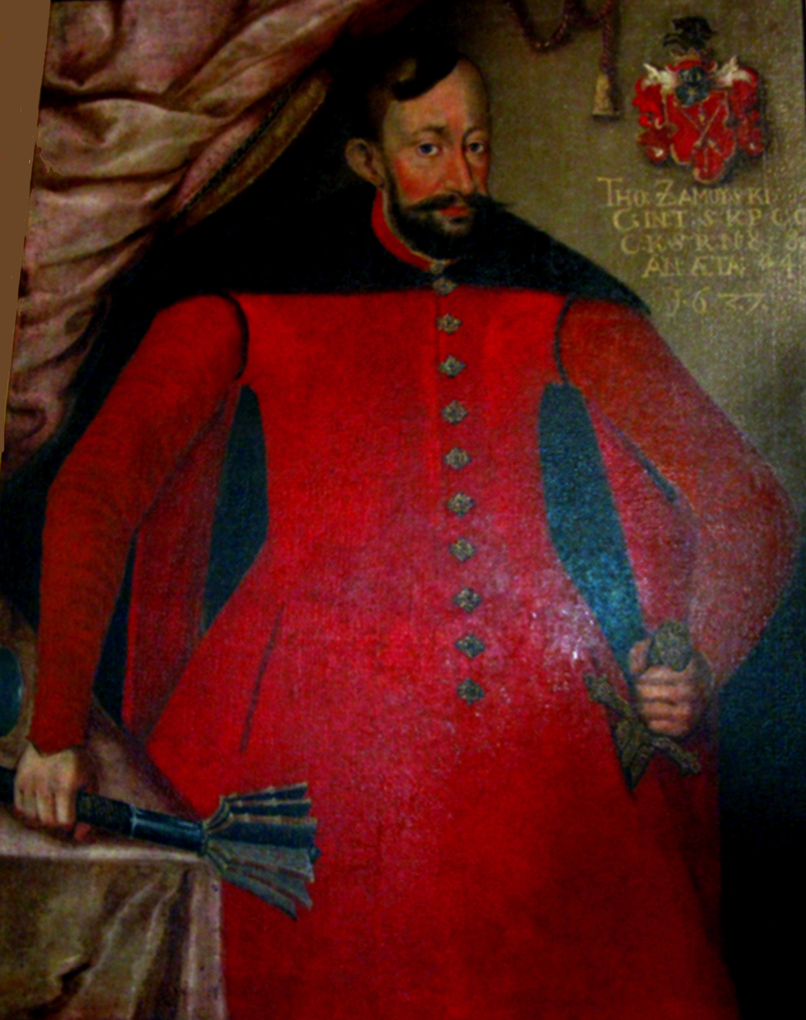 Portrait of Tomasz Zamoyski (1594-1638)